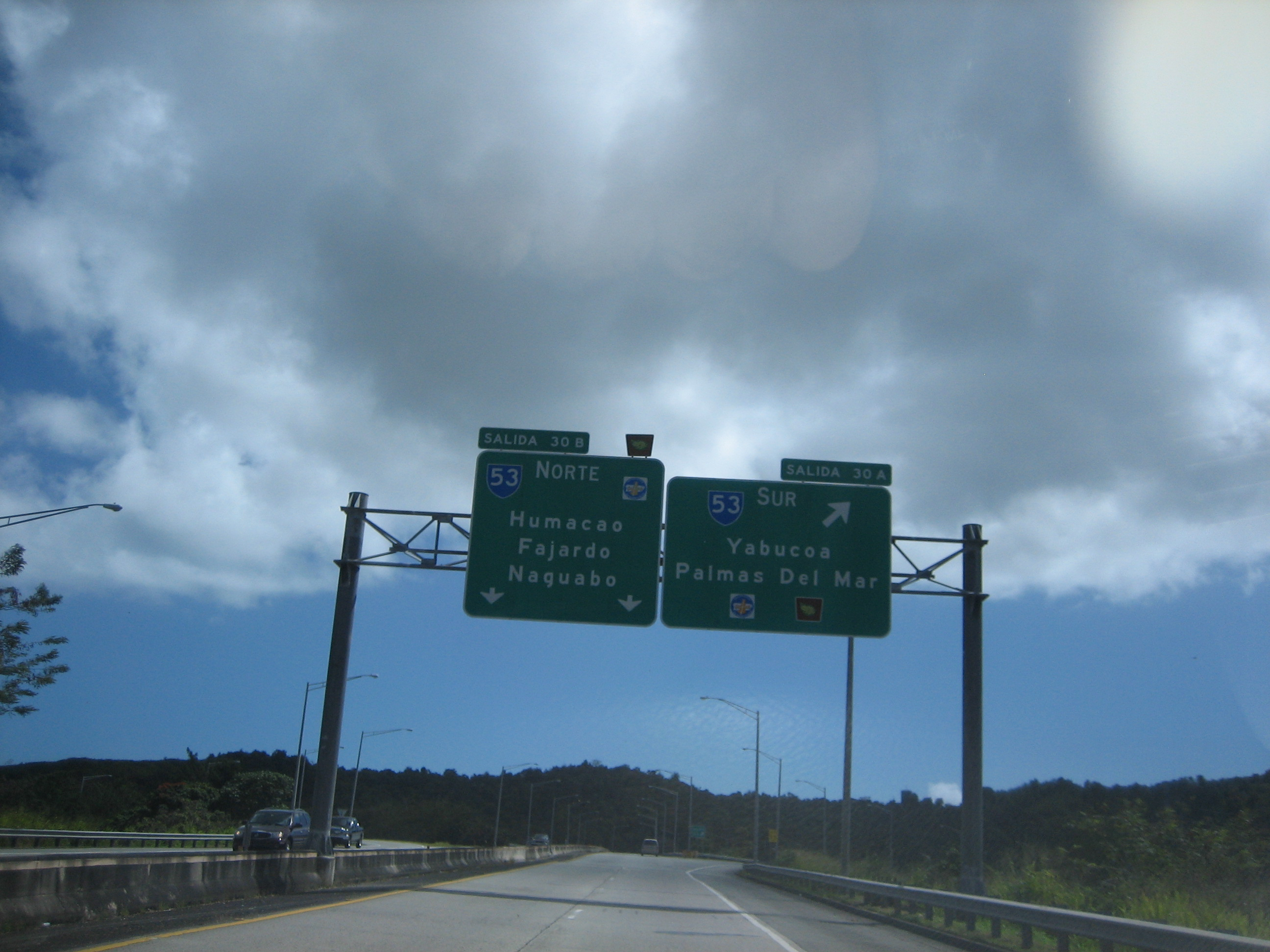 PR-30 near its east terminus to PR-53.